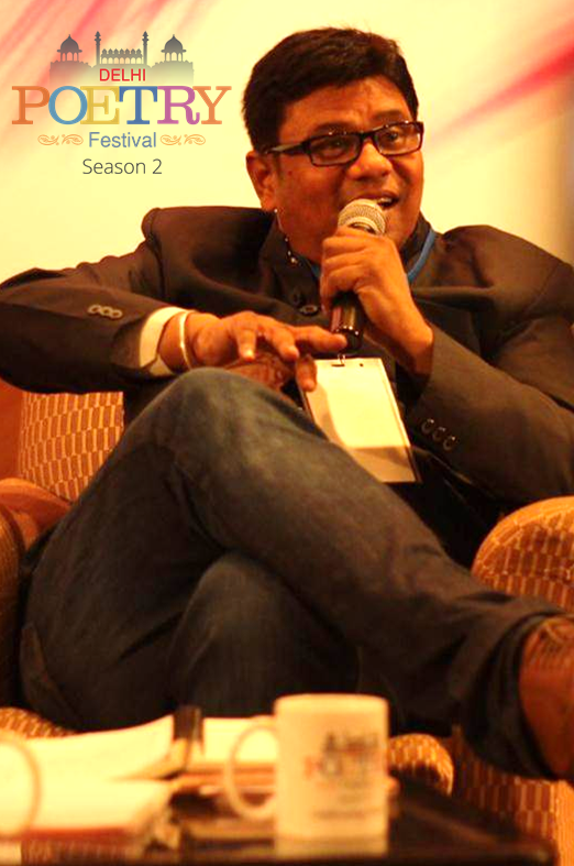 DPF Finale